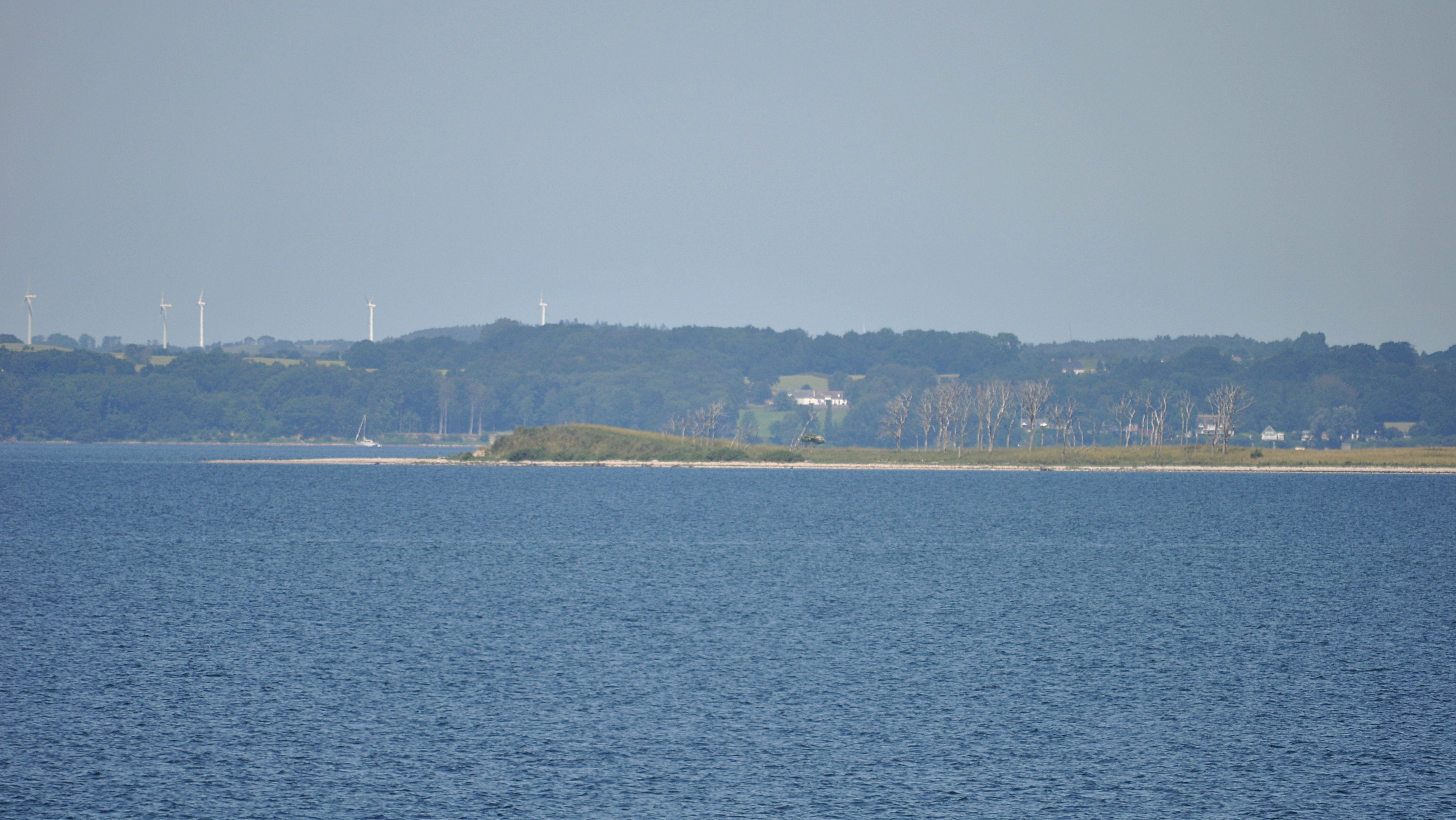 Illumø.